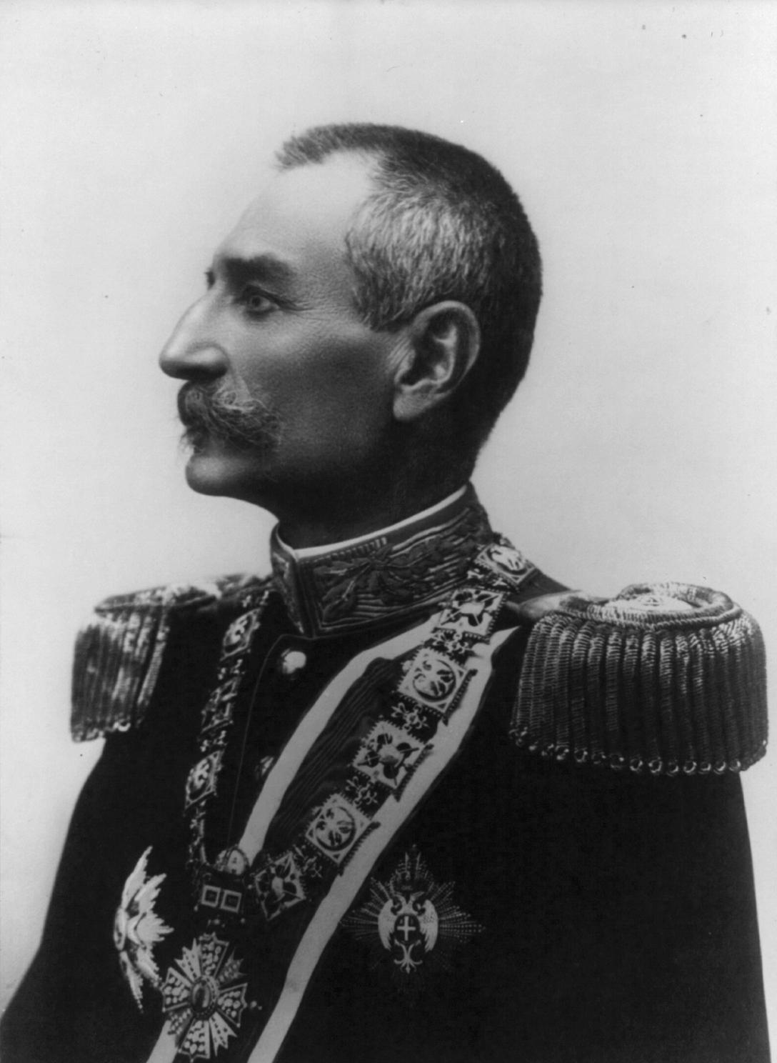 Peter I. Karageorgevich, King of Serbia, 1844-1921